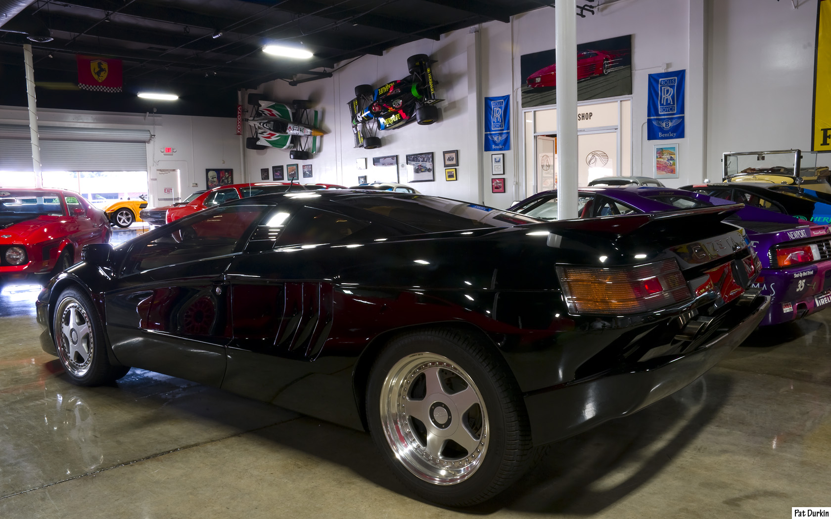 Cizeta-Moroder V16T at the Marconi Automotive Museum